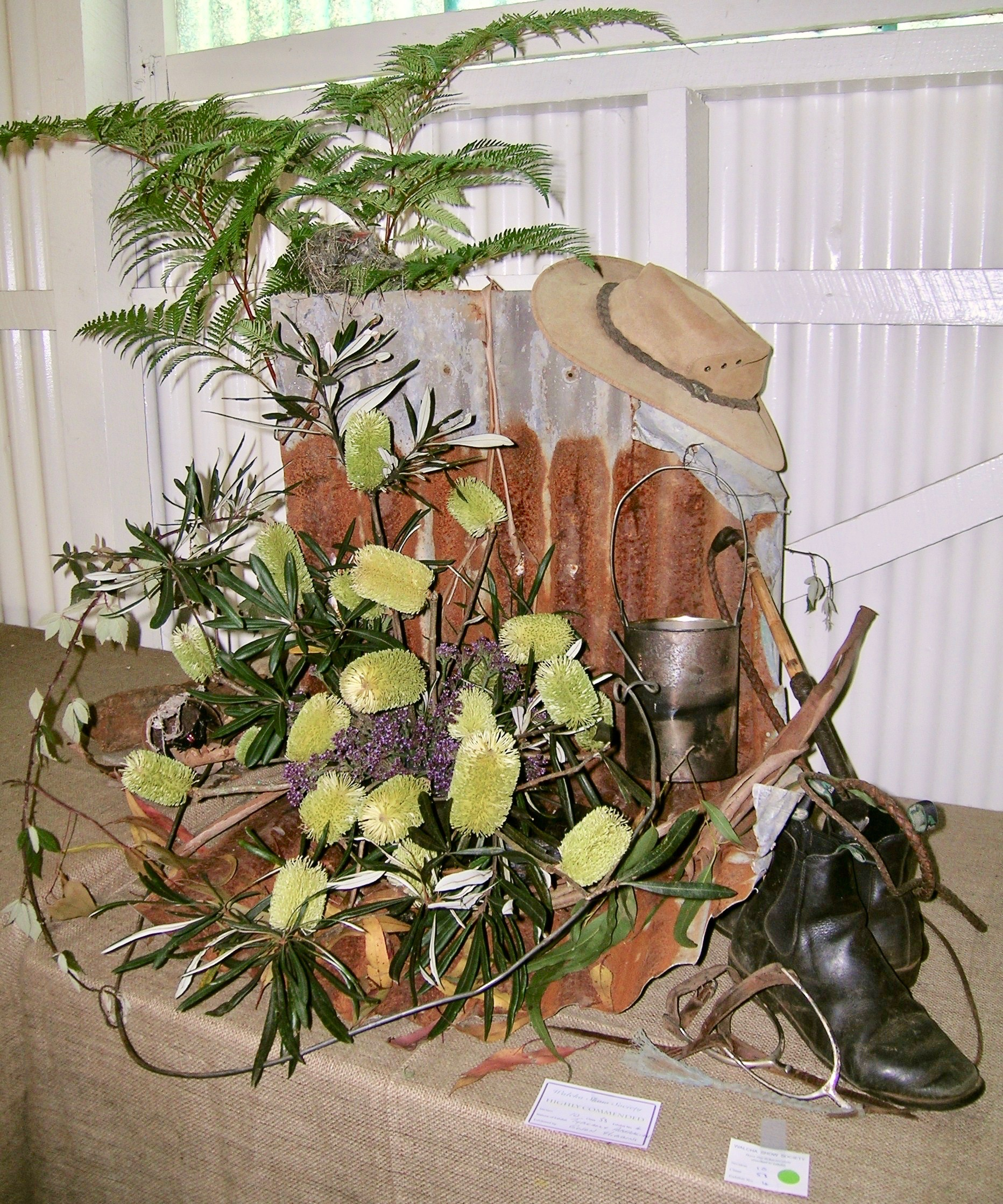 Icons of the Australian bush: bracken, corrugated iron, bottlebrush, felt hat, billy, stockwhip and elastic-side boots.